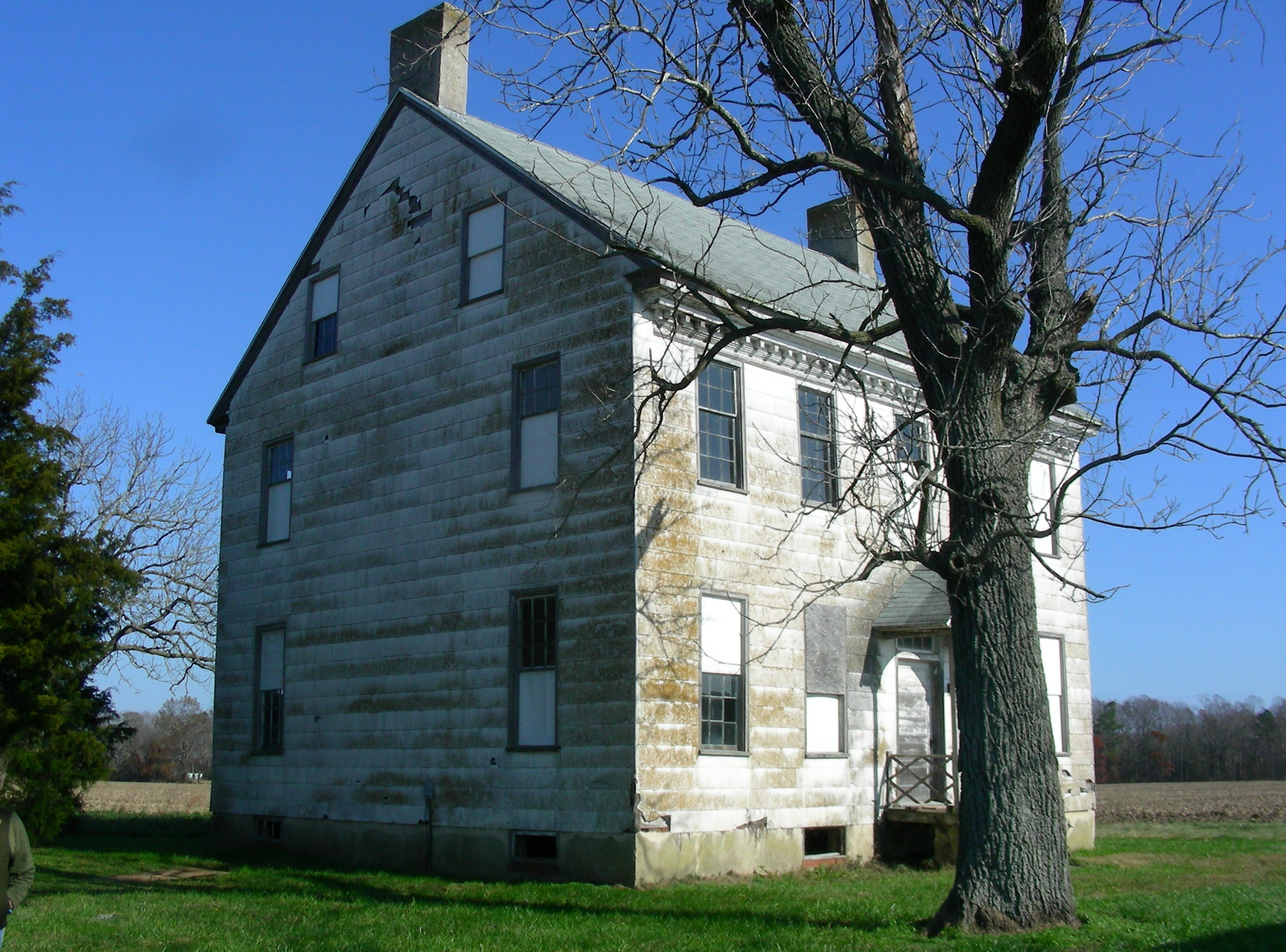 An angled view of Simpson's Grove. The building was constructed circa 1800.